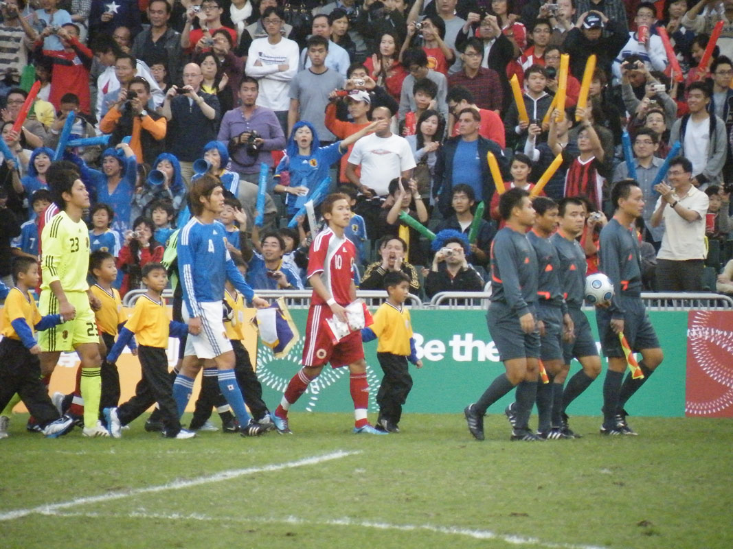 2009 East Asian Games Football Final Match - Hong Kong, China vs Japan at Hong Kong Stadium on 2009.12.12.